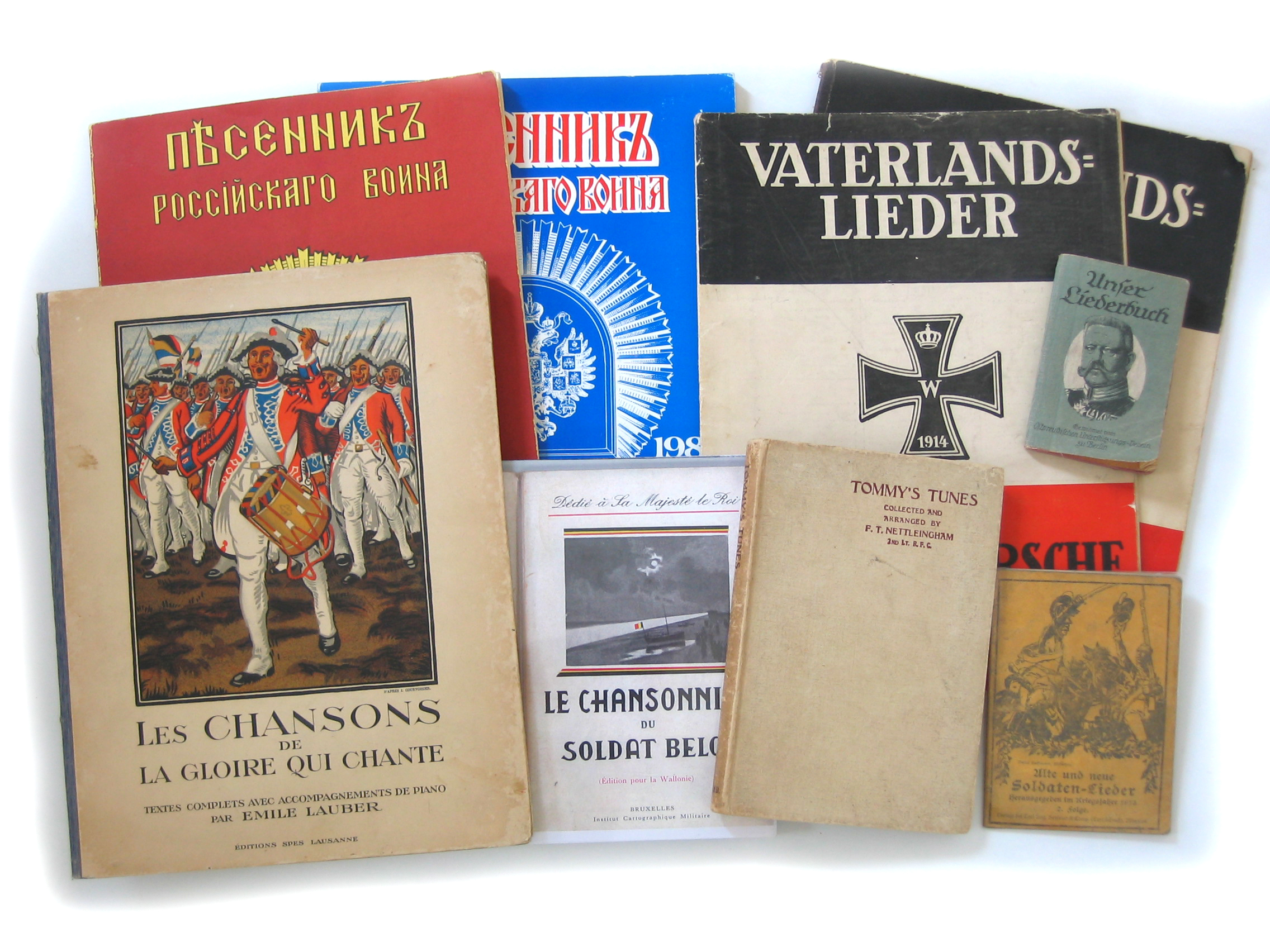 Military songbooks